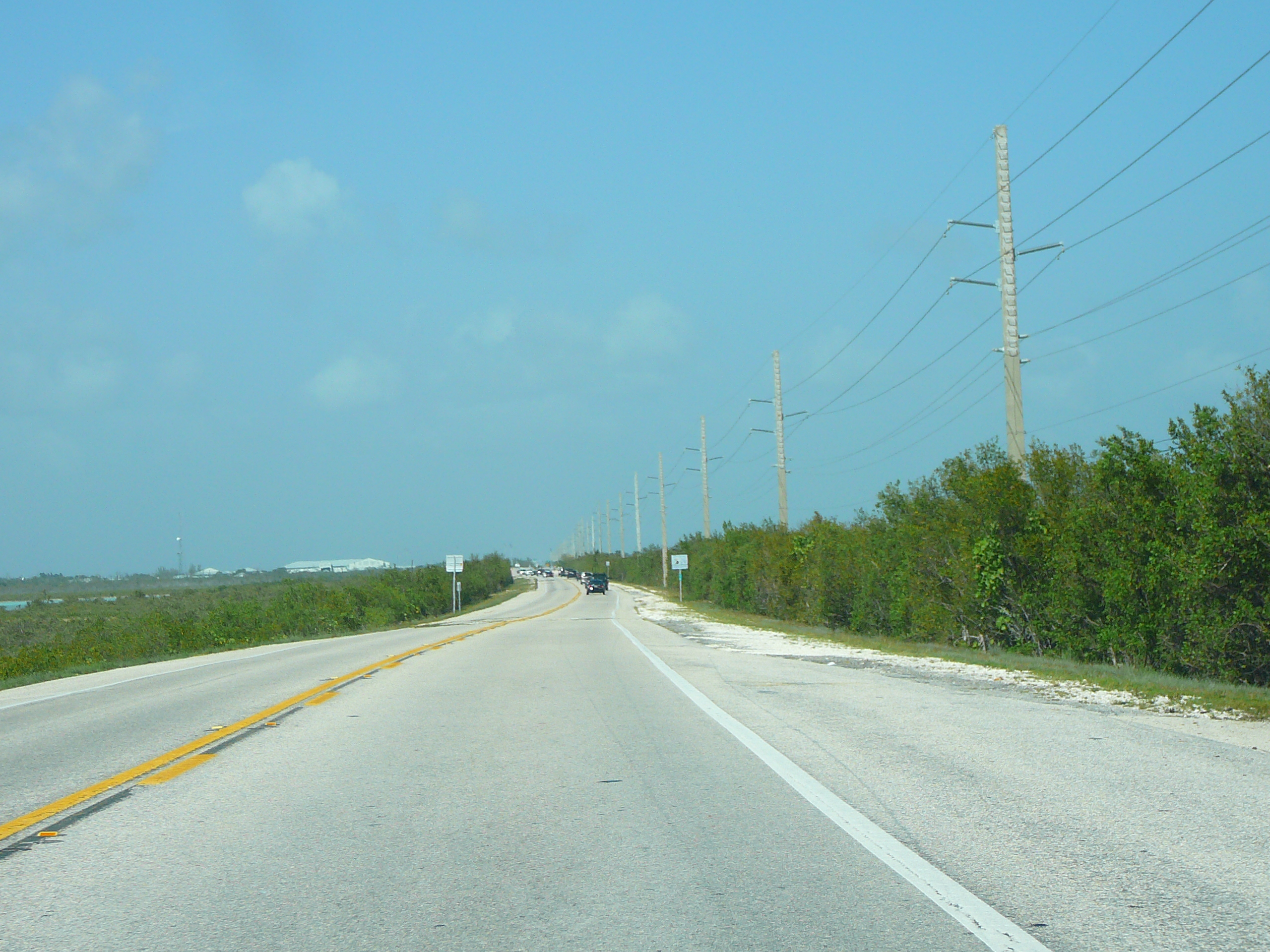 Digital photo taken by Marc Averette. Park Key in the Florida Keys